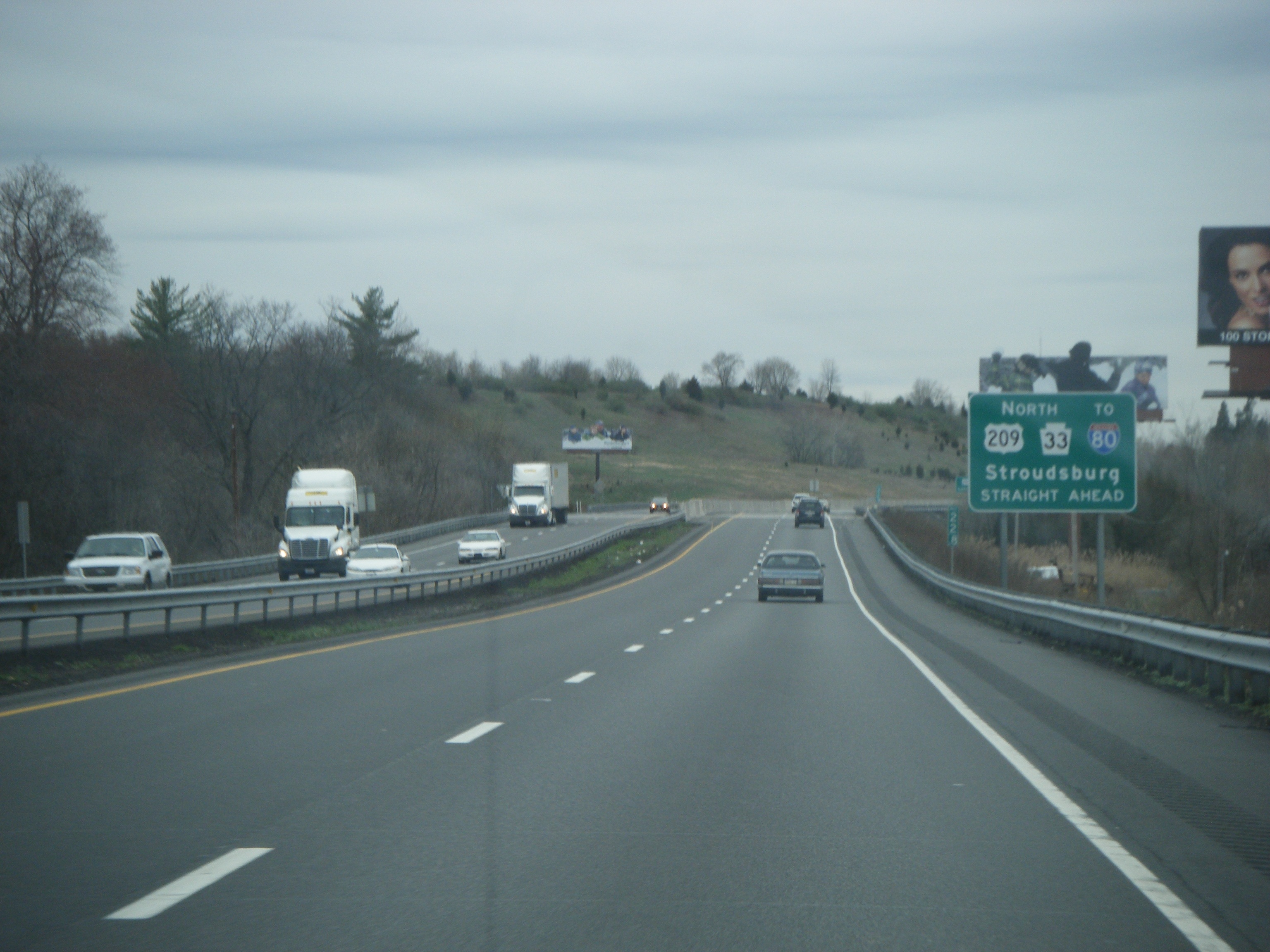 Northbound Pennsylvania Route 33 approaching the interchange with U.S. Route 209 in Hamilton Township.